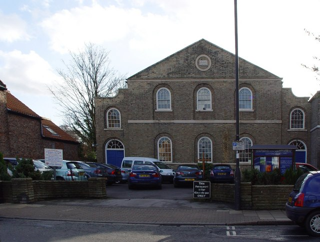 Zion United Reformed Church, Cottingham, East Riding of Yorkshire, England.A busy afternoon!